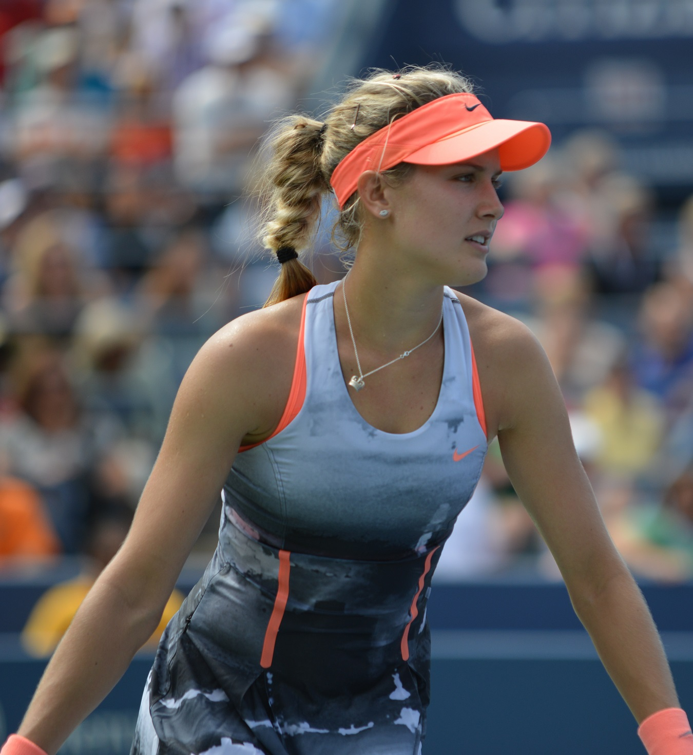 Eugenie Bouchard at the 2013 US Open